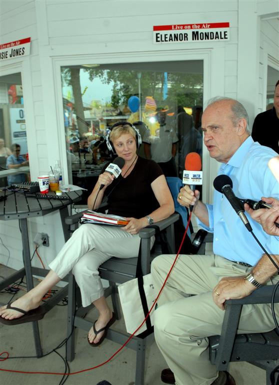 Fred Thomson interview with Eleanor Mondale, Minnesota State Fair